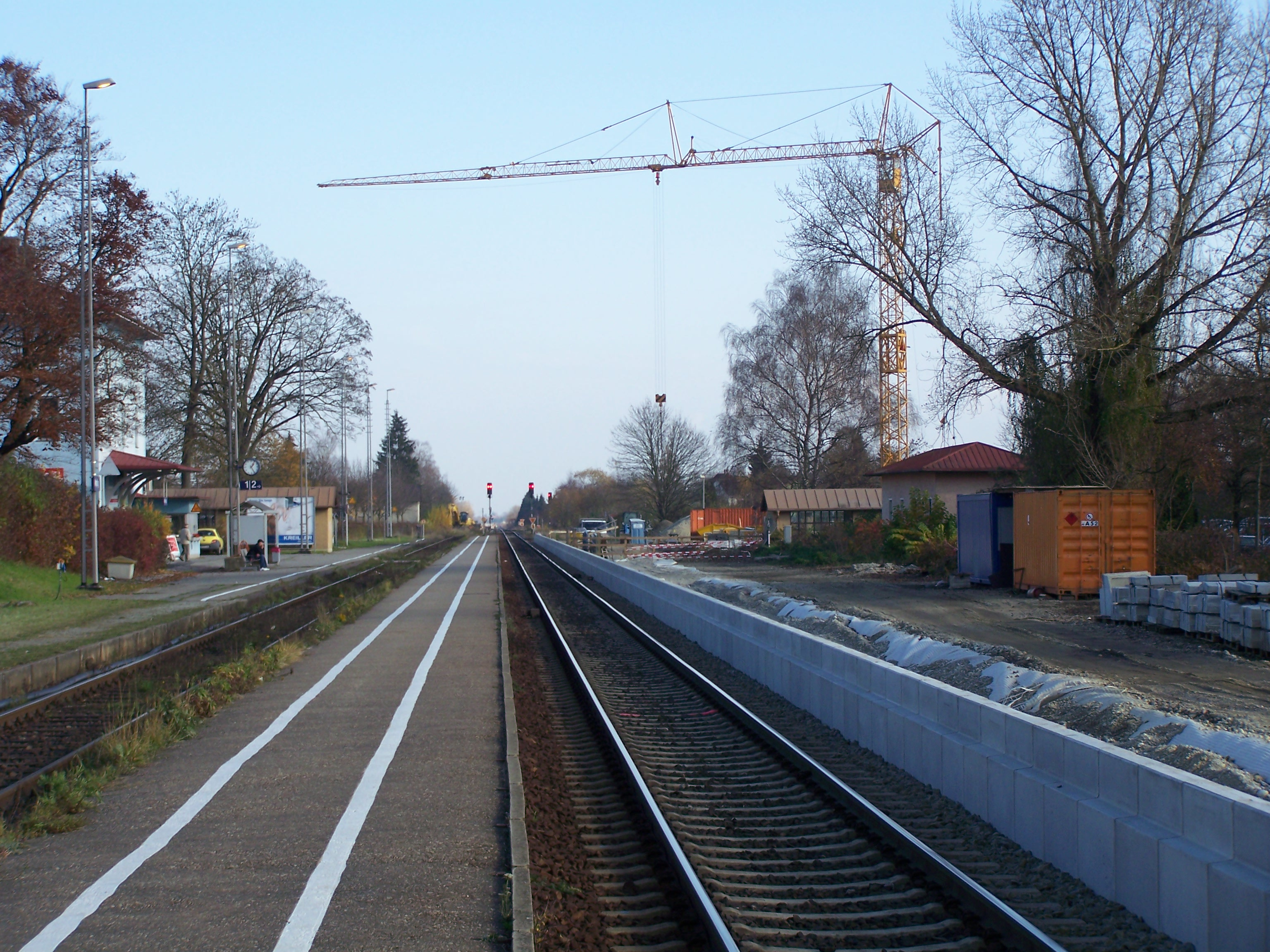 train station Ampfing, construction of new tracks and platforms in progress